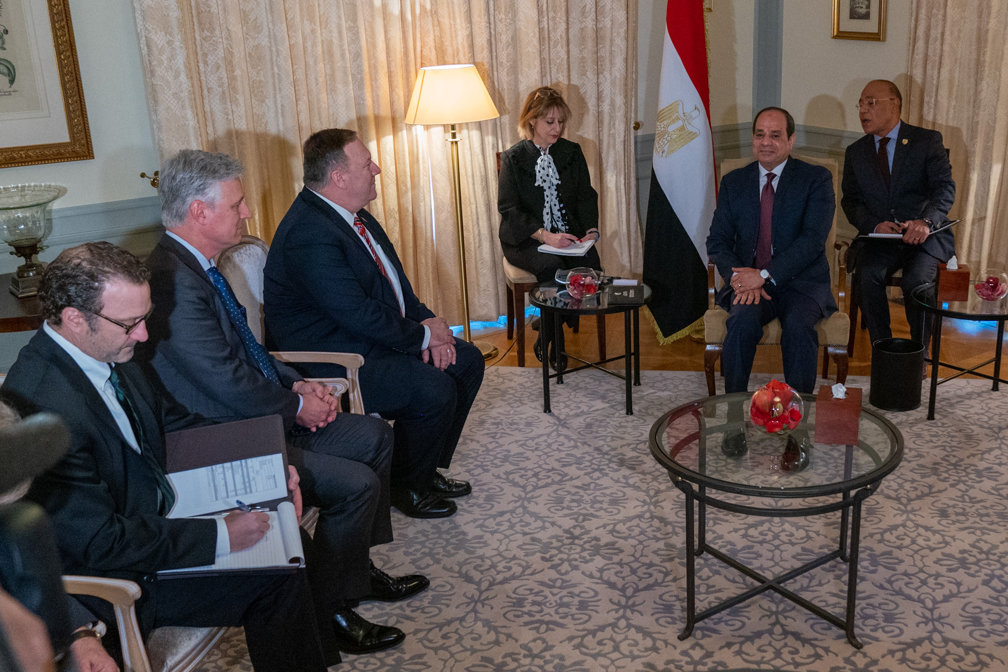 Secretary of State Michael R. Pompeo met with Egyptian President Abdel Fattah El-Sisi in Berlin, Germany, on January 19, 2020. [State Department Photo by Ron Przysucha/ Public Domain]